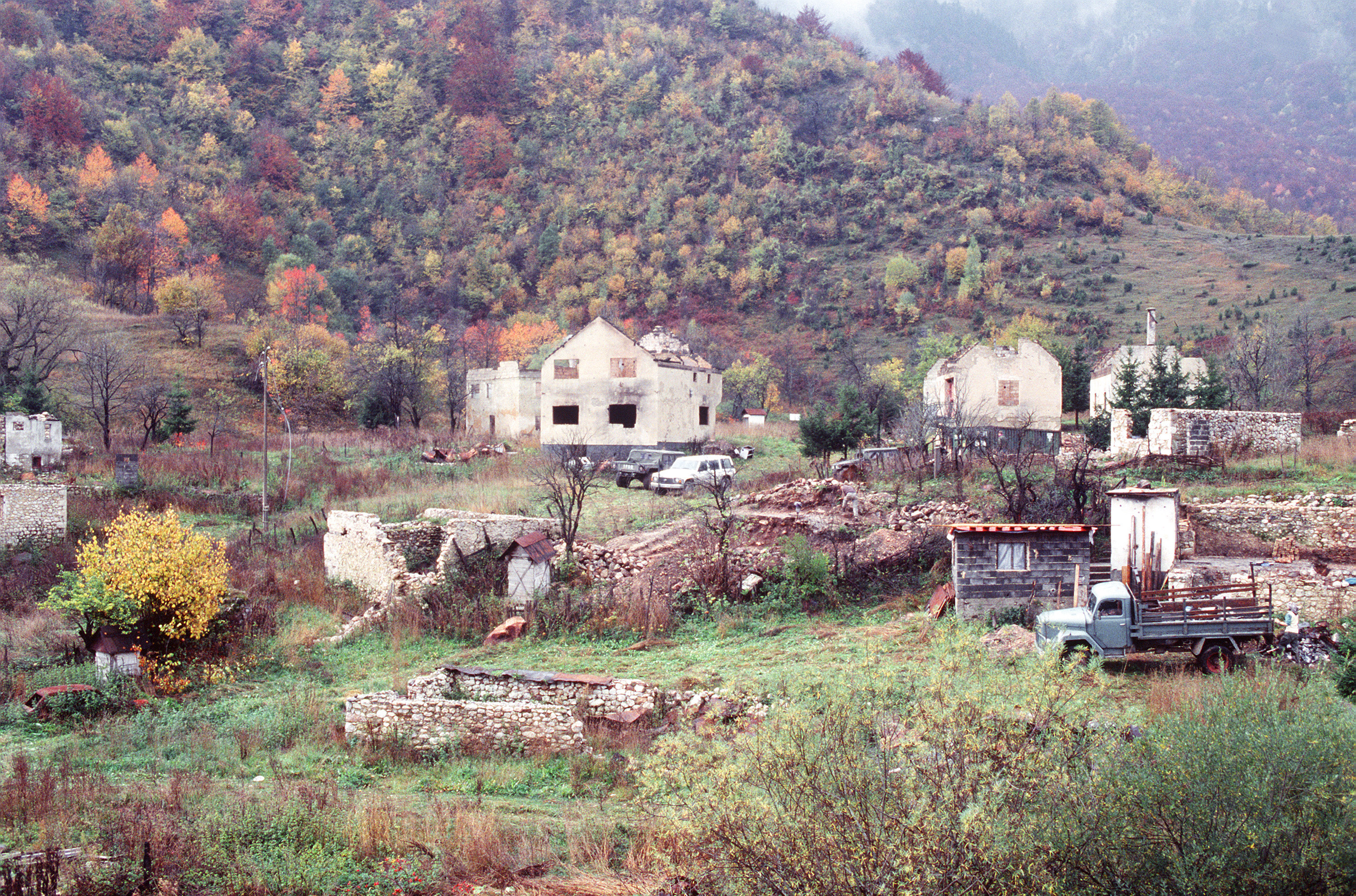 The village of Trnovo which was destroyed during the hostilities in the prior Yugoslavia. The village will be fully reconstructed through funding by the United Nations High Commissioner for Refugees (UNHCR). The work will be completed by a local contractor by the end of 1996.